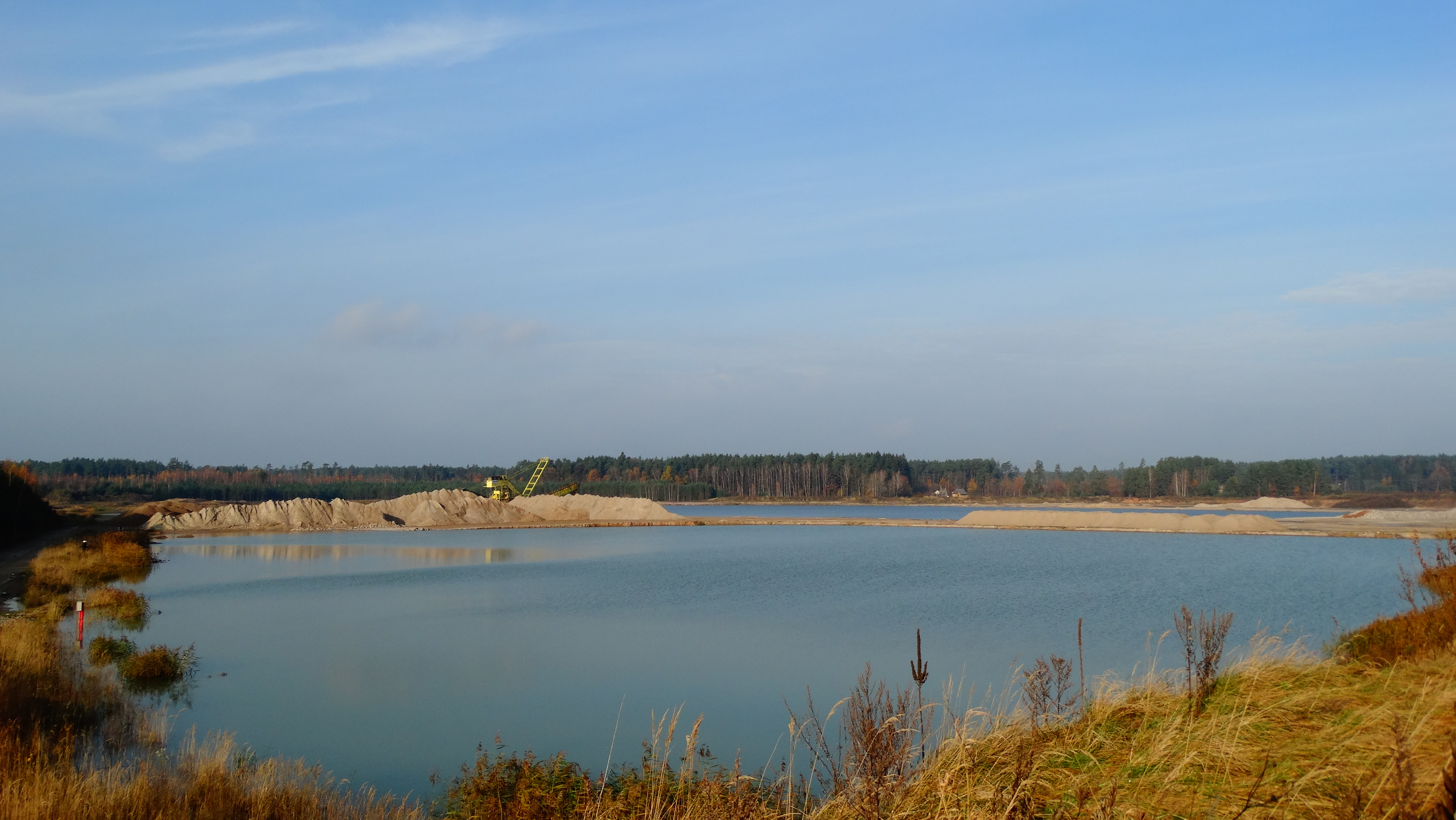 Quarry in Smukučiai, Jurbarkas district, Lithuania